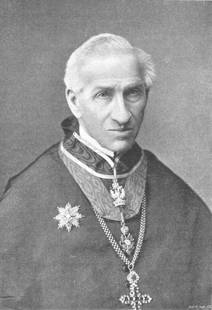 Leopoold Wackarz, Abbot General of the Cistercian Order. See German Wiki under: Leopoold Wackarz